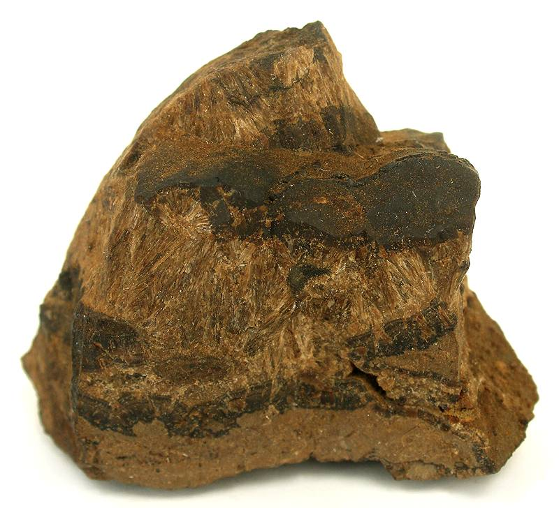 Collinsite Locality: Francois Lake, Omenica Mining Division, British Columbia, Canada (Locality at ) Size: miniature, 5.0 x 3.8 x 2.7 cm Collinsite with Asphaltum Collinsite from this locality, according to MINDAT, is said to have its origins in large deposits of guano, or bat poop. This is a classic find for the study of such origins, apparently. The collinsite here is in light brown, fibrous aggregates associated with fluorapatite on andesine. Also in association is "wurtzilite", now known as asphaltum, a natural hydrocarbon mineral more commonly referred to perhaps as "tarry goo."